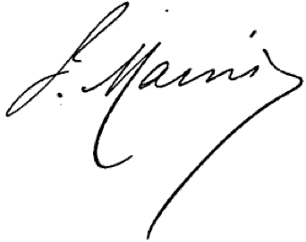 Signanture of Jeanne Marni; nee Jeanne-Marie-Francoise Barousse; Mme. Marniere